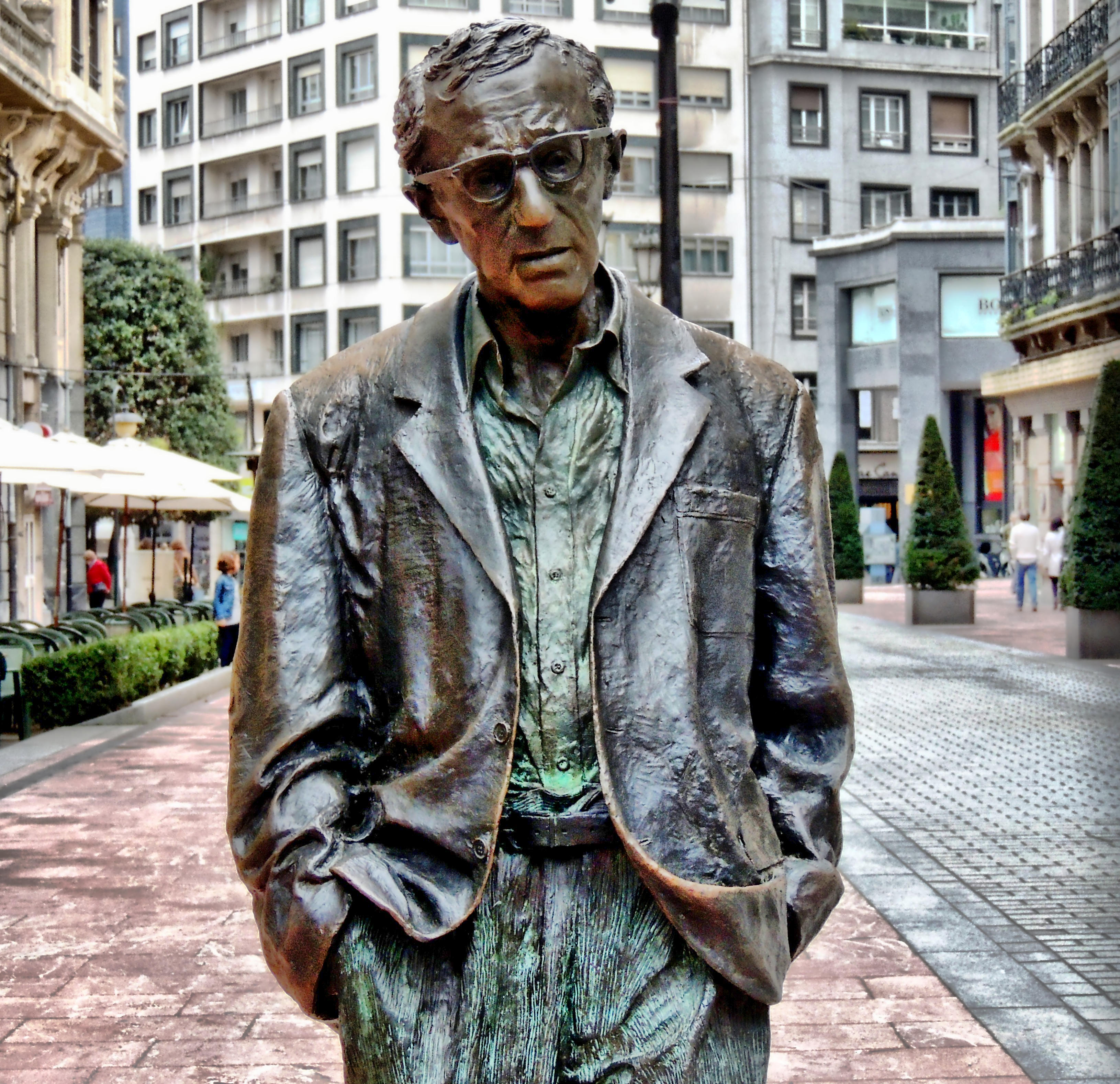 Bronze statue of Woody Allen by Vicente Menéndez Prendes, Oviedo, Spain